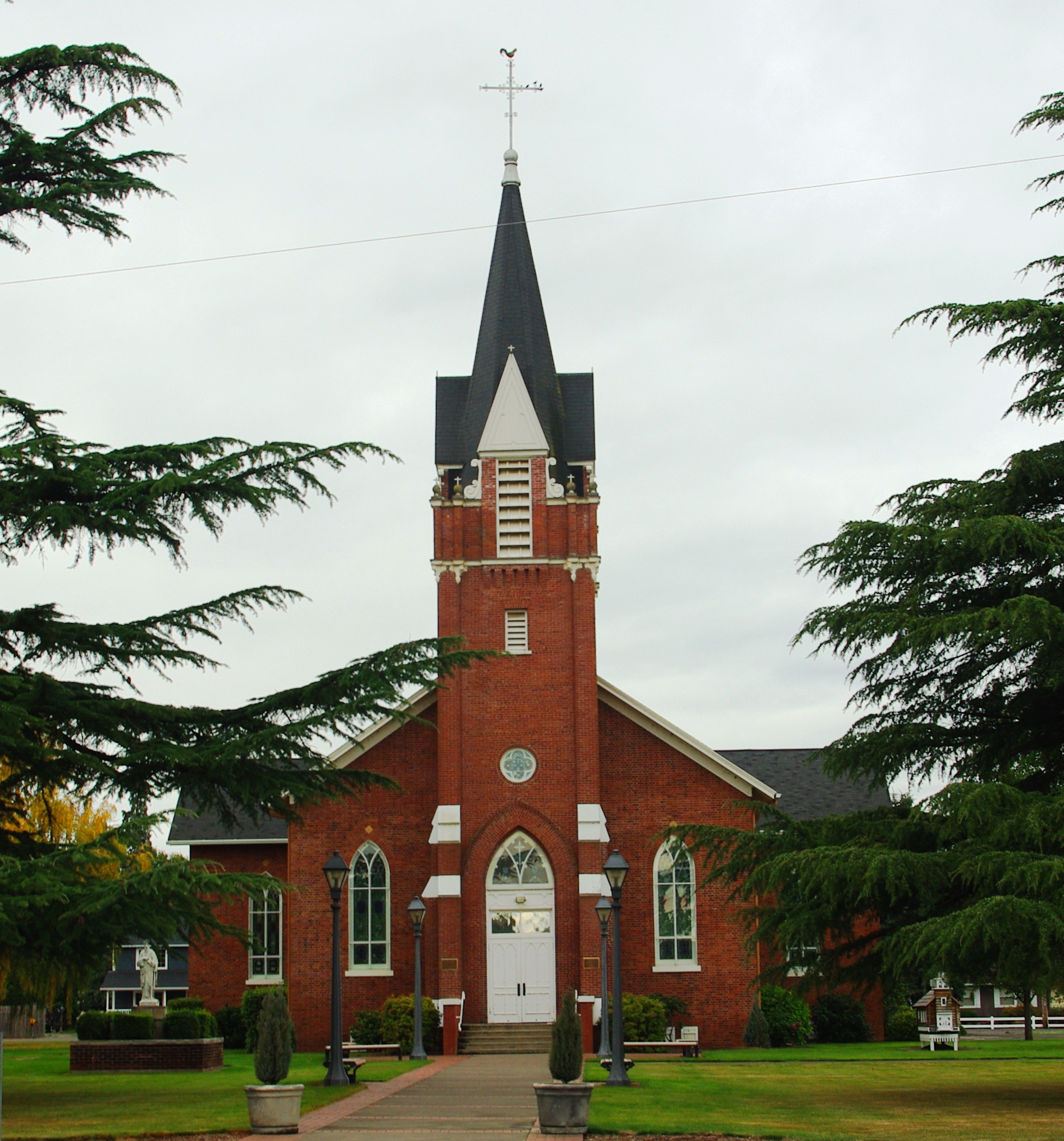 St. Paul Roman Catholic Church in Oregon, USA.